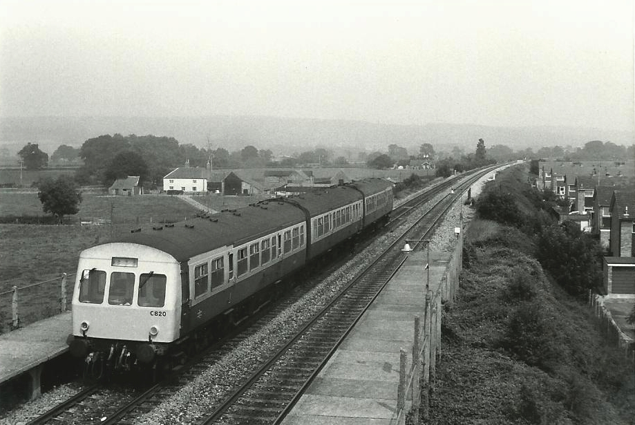 Metro-Cammell Class "101" (originally Class "102") Local Passenger 3-car dmu Set No.C820 consisting of Class 101/1 (No.W51512), 171 & 101/2 cars, of the 1959 batch in Rail Blue & Grey livery with all yellow front ends, at Nailsea & Backwell (where I lived at the time) on a Weston super Mare - Bristol (Temple Meads) - Cardiff (Central) service, 08/82. Scanned photograph taken with a Canon AE-1 Program.